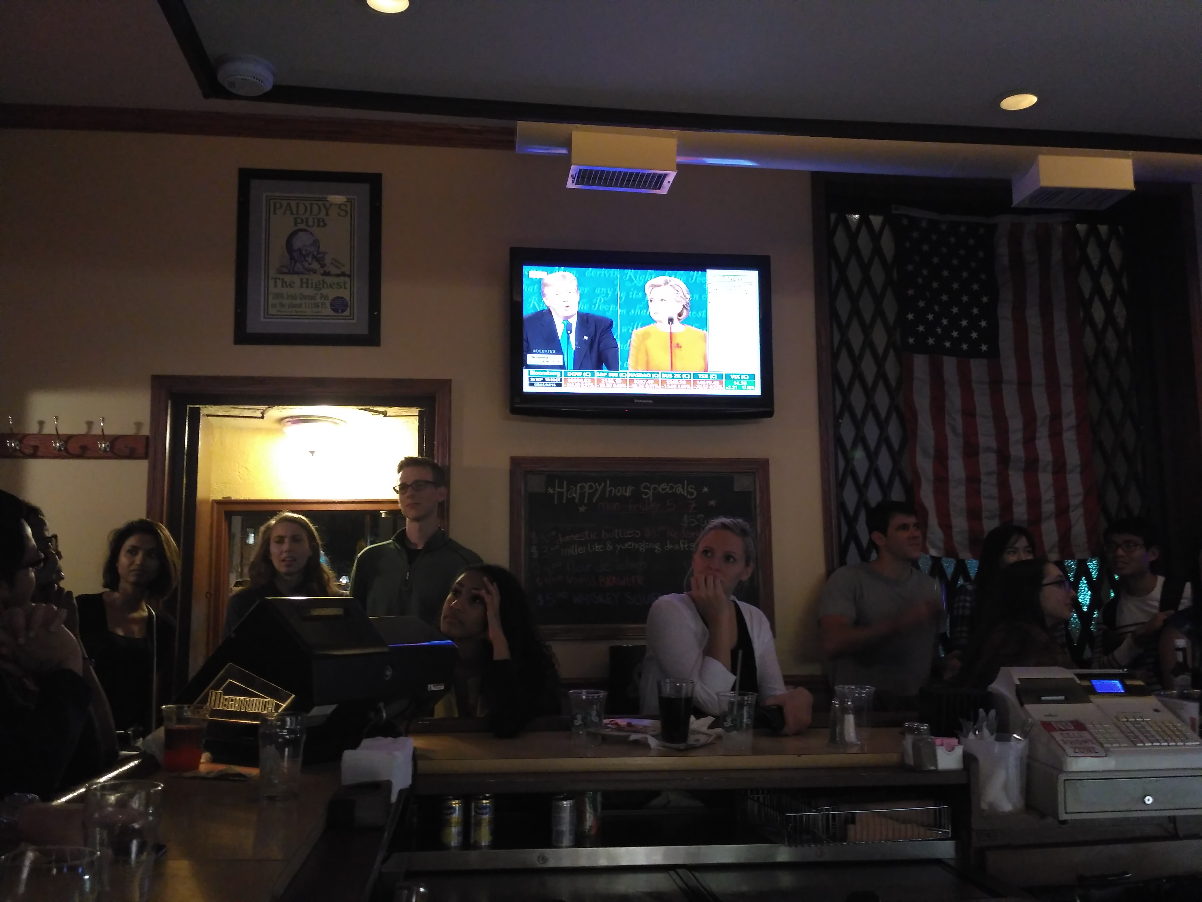 Patrons of Paddy's Pub in Philadelphia watching the first presidential debate on September 26, 2016